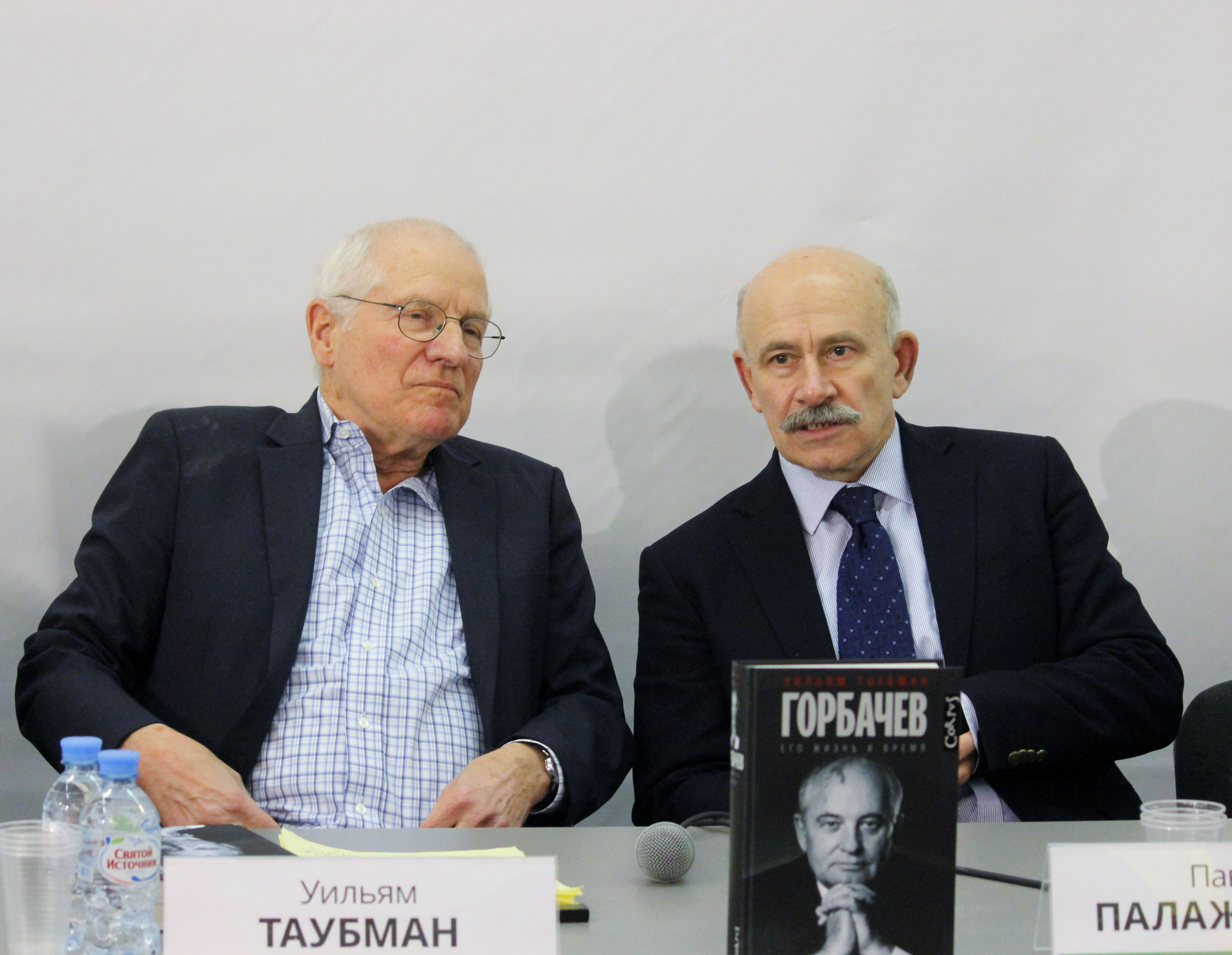 American political scientist William Taubman and russian translator Pavel Palazhchenko during the presentation of the Russian translation of Taubman's book Gorbachev: His Life and Times at the 20 Moscow International Fair Non/fiction 2018